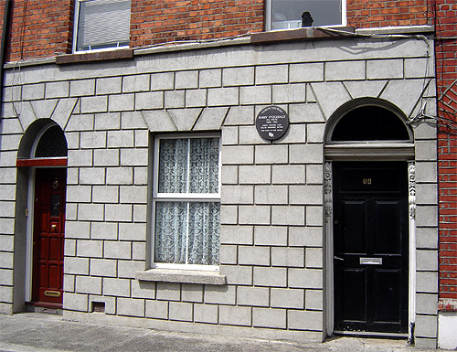 Photo of birthplace of Barry Fitzgerald, Walworth Road, Dublin.